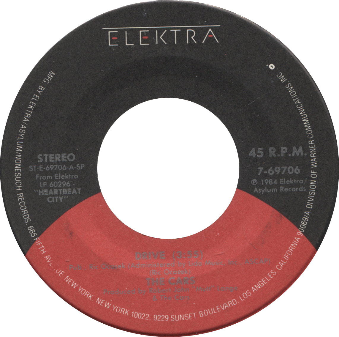 A-side label variant of "Drive" by The Cars; US vinyl release